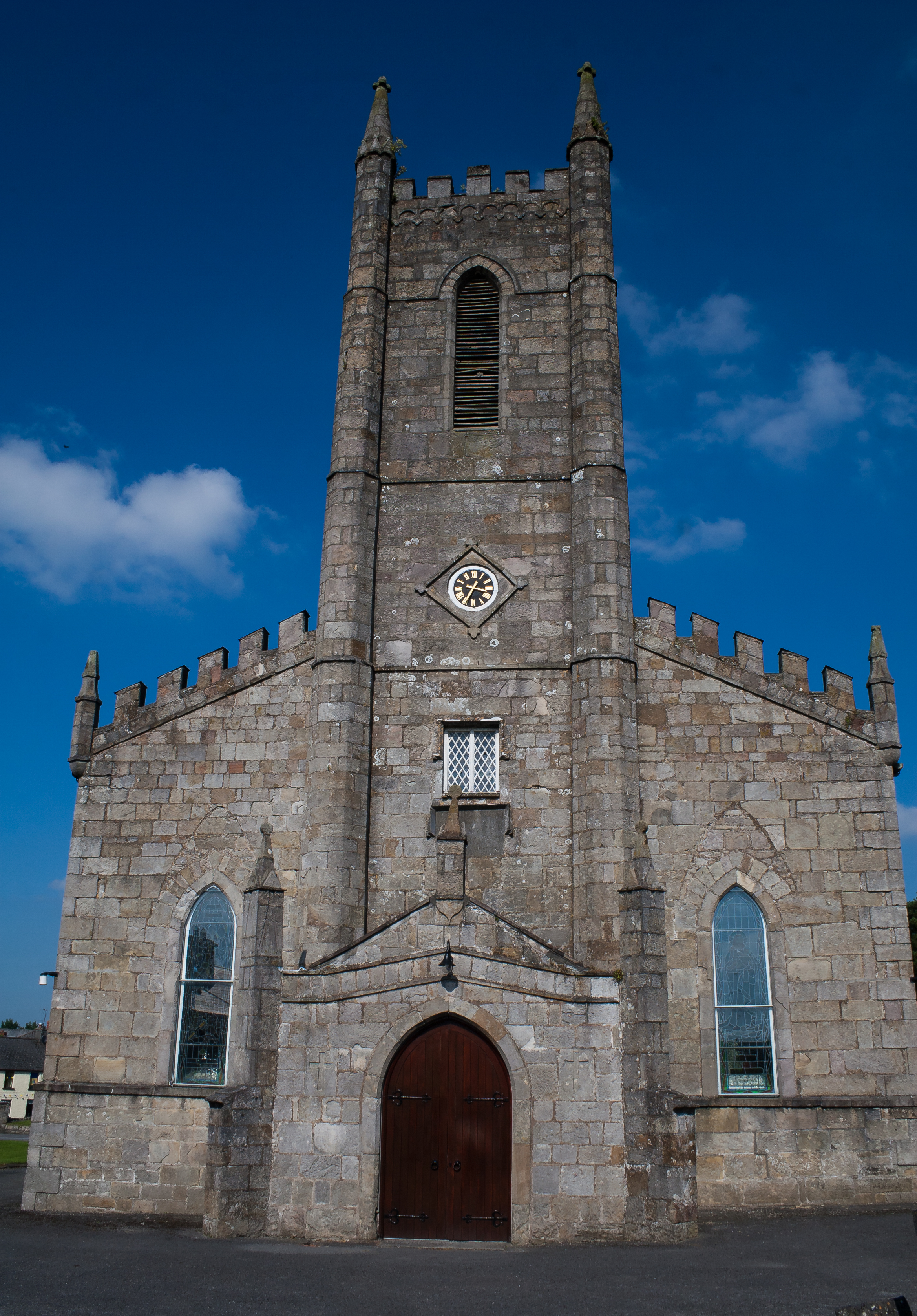 Tower and portal of St. Cronan's Anglican Parish Church.